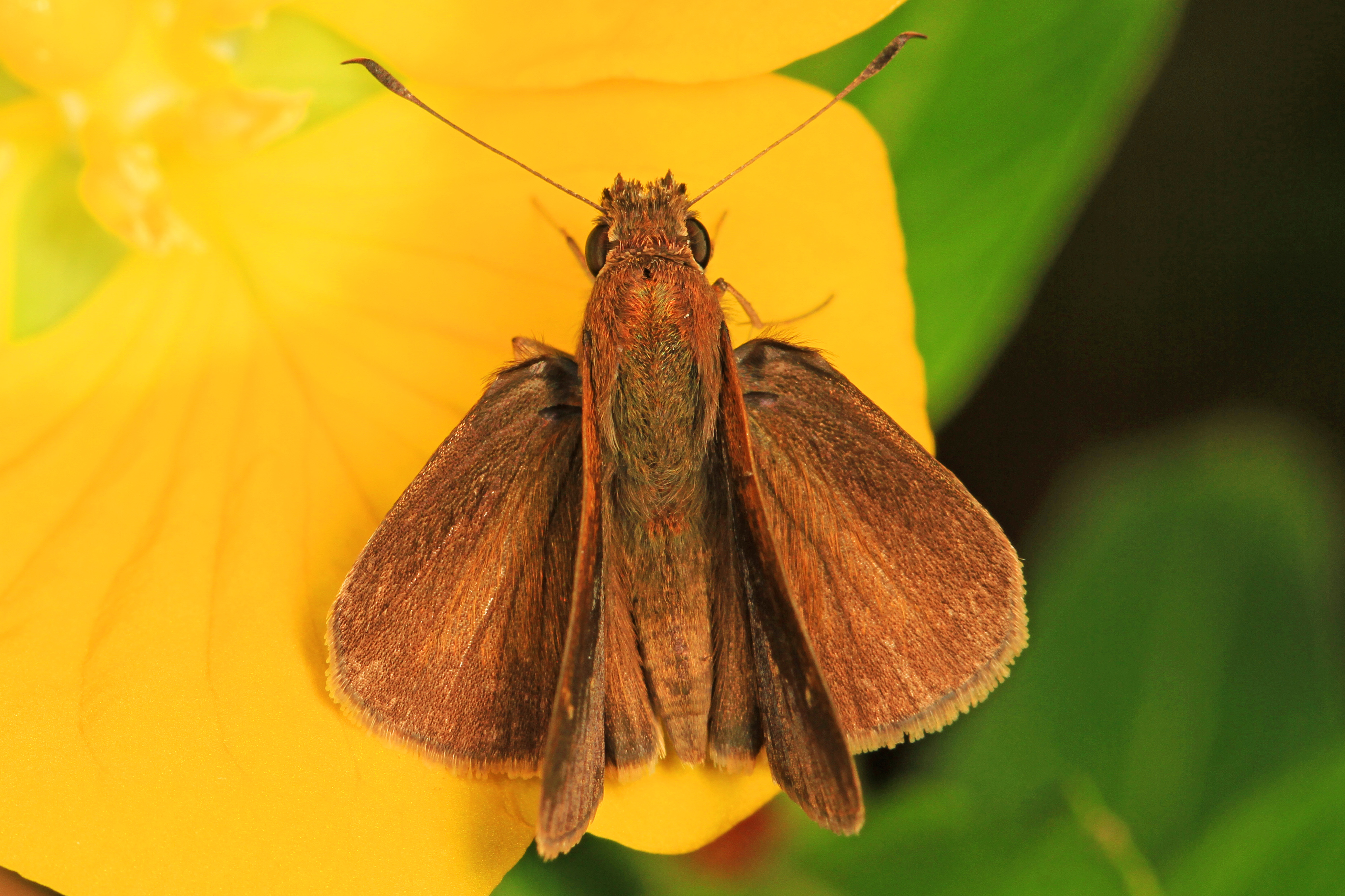 Three-spotted Skipper - Cymaenes tripunctus, Big Cypress National Preserve, Ochopee, Florida